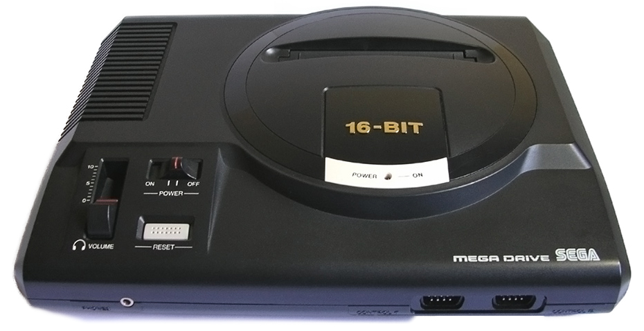 Sega Mega Drive (PAL version - 1990)